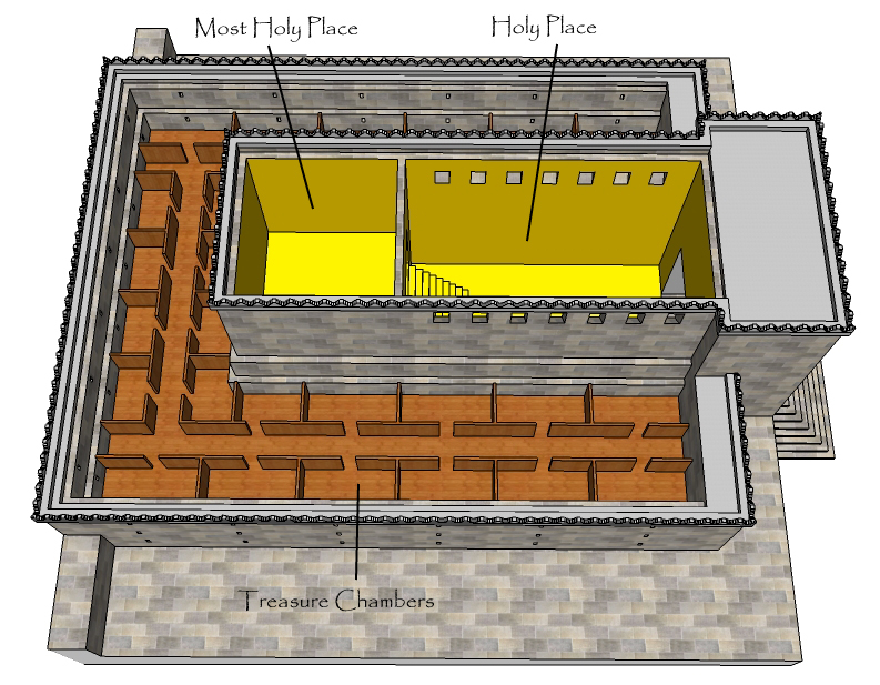 This was a candidate to be copied to Wikimedia Commons. Original uploader: Epictatus -Talk Gabriel Fink. -I Gabriel Fink created this work entirely by myself.